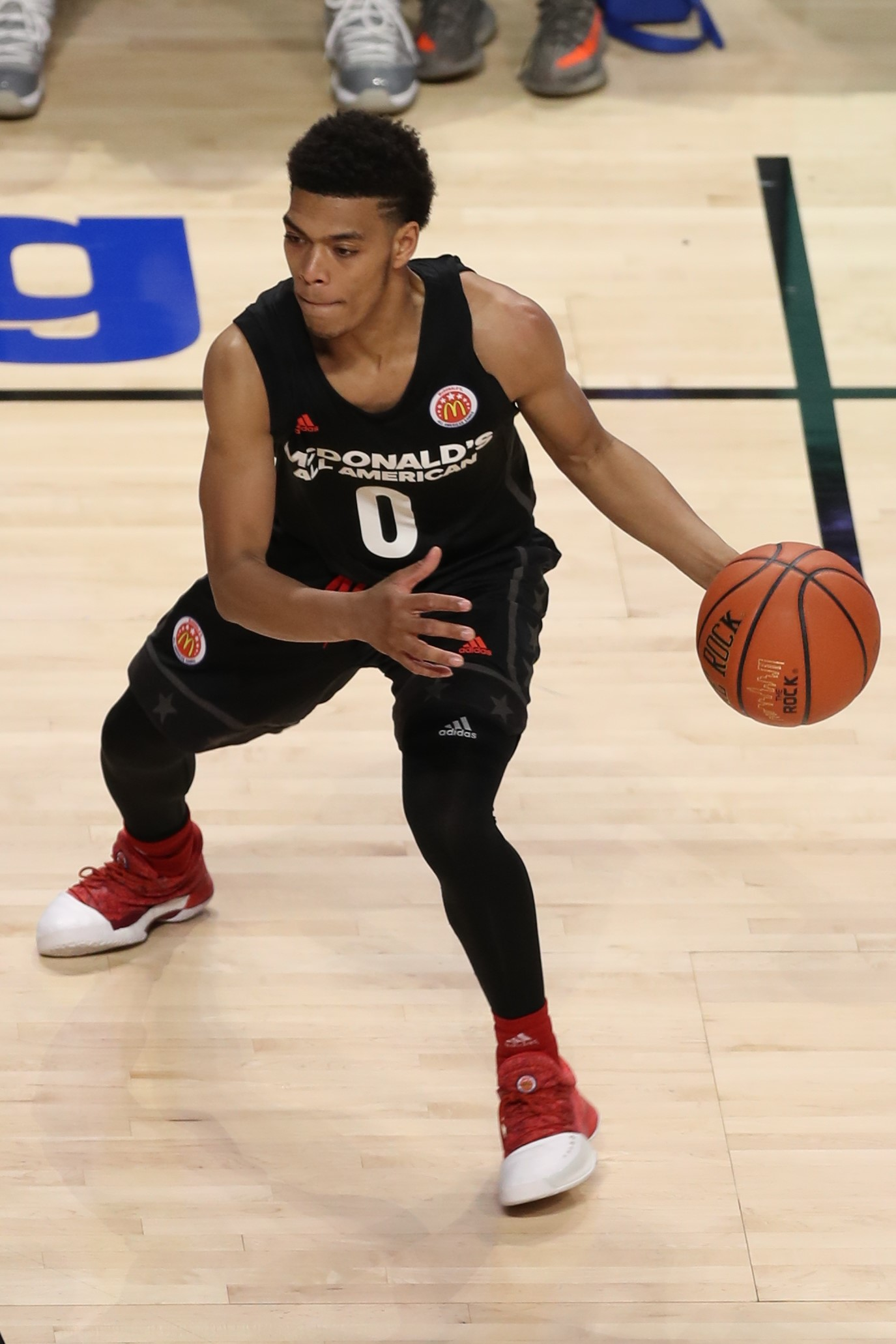 Quade Greene at the w:2017 McDonald's All-American Boys Game